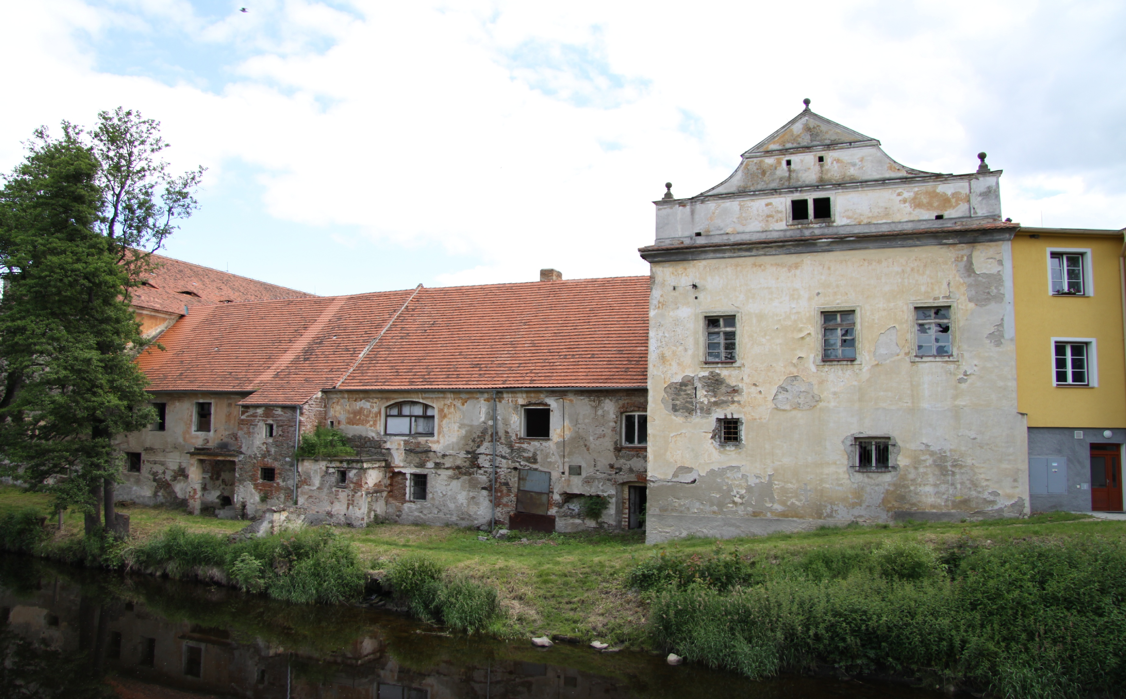 Střelské Hoštice village in Strakonice District, Czech Republic. Château This photograph was taken within the scope of the 'Czech Municipalities Photographs' grant.